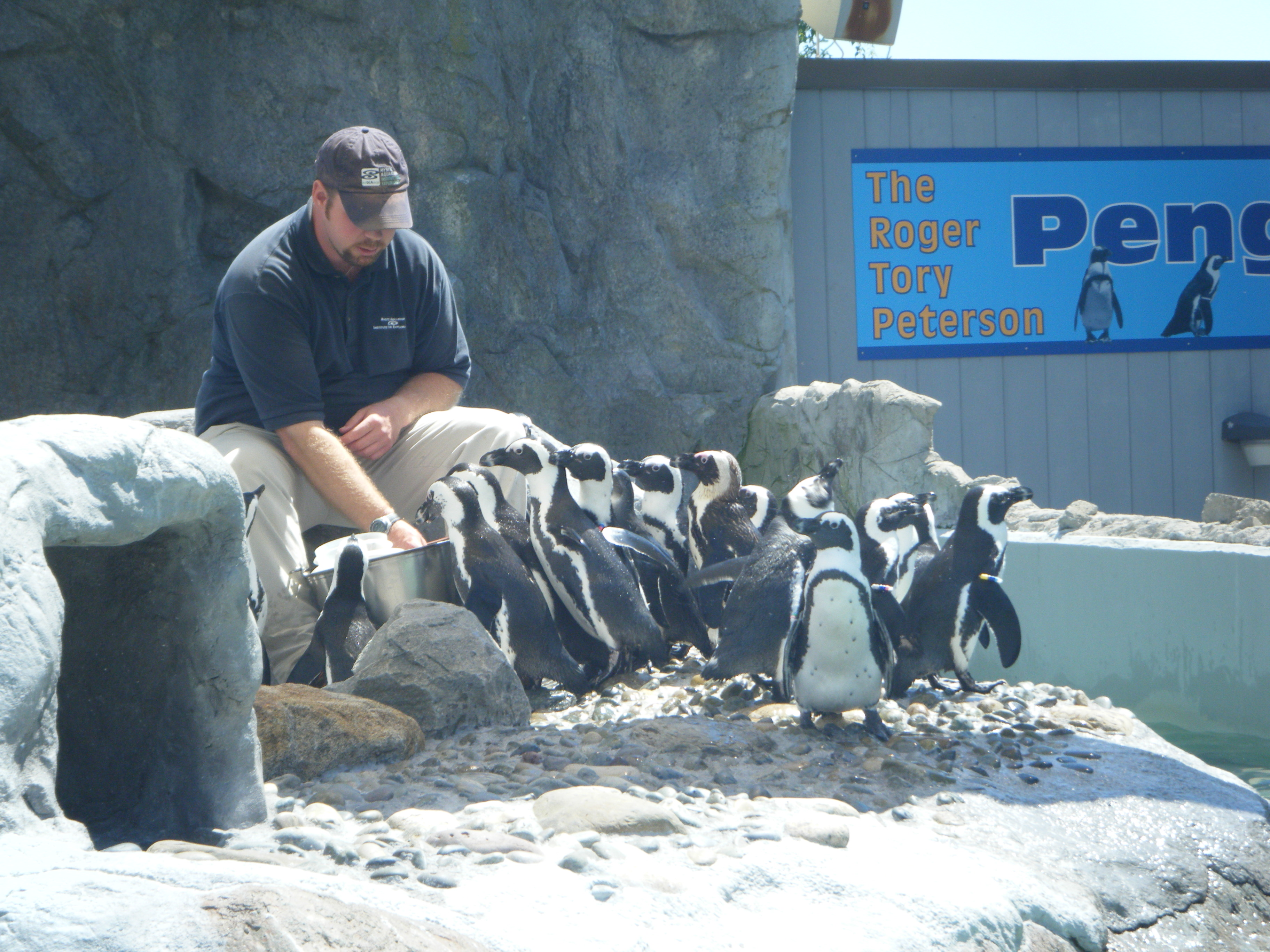 Feeding of the penguins at Mystic Aquarium & Institute for Exploration in Mystic, CT.